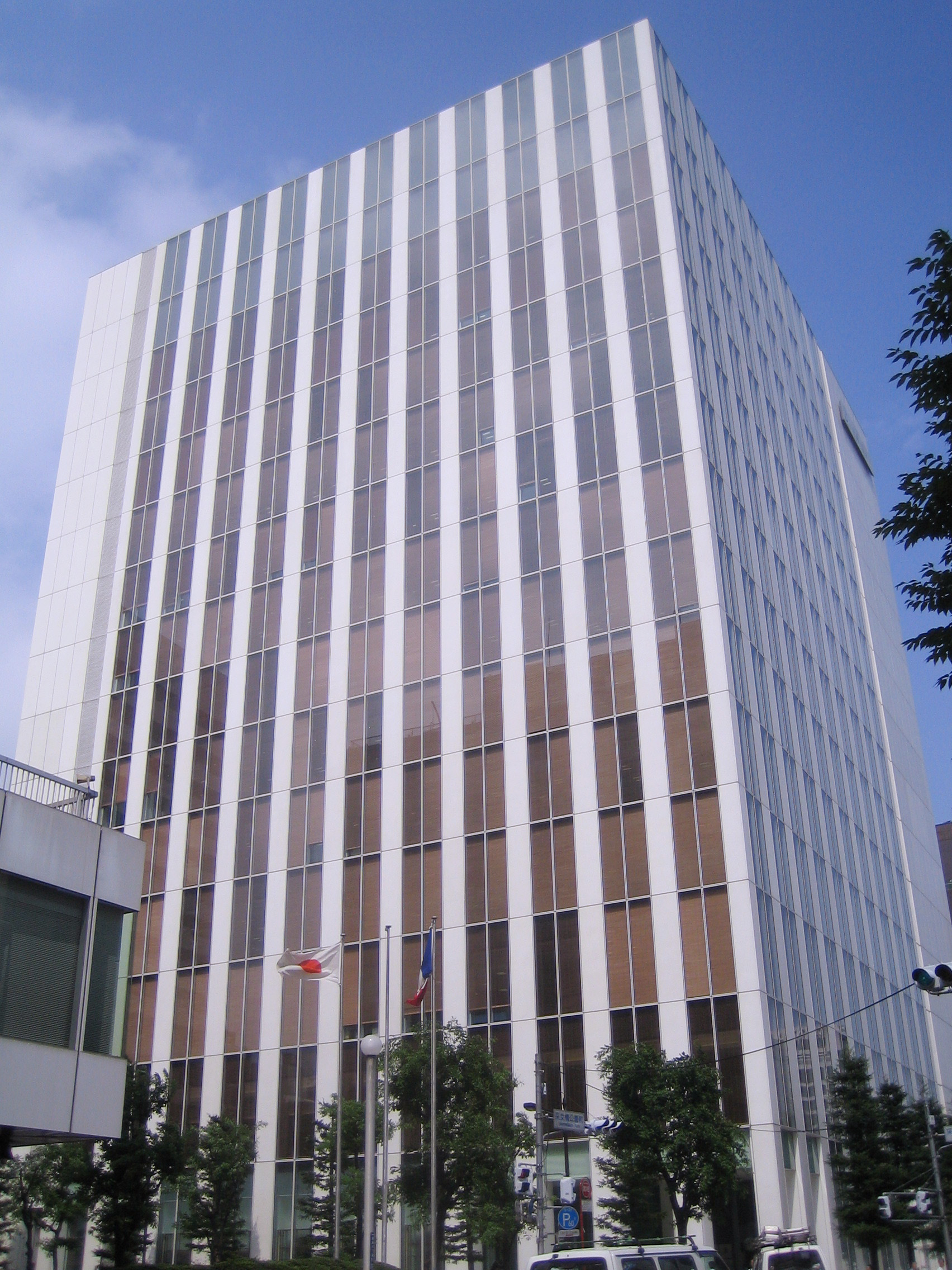 Headquarters of Jiji Press (時事通信社), located at 5-15-8 Ginza, Chuo, Tokyo, Japan